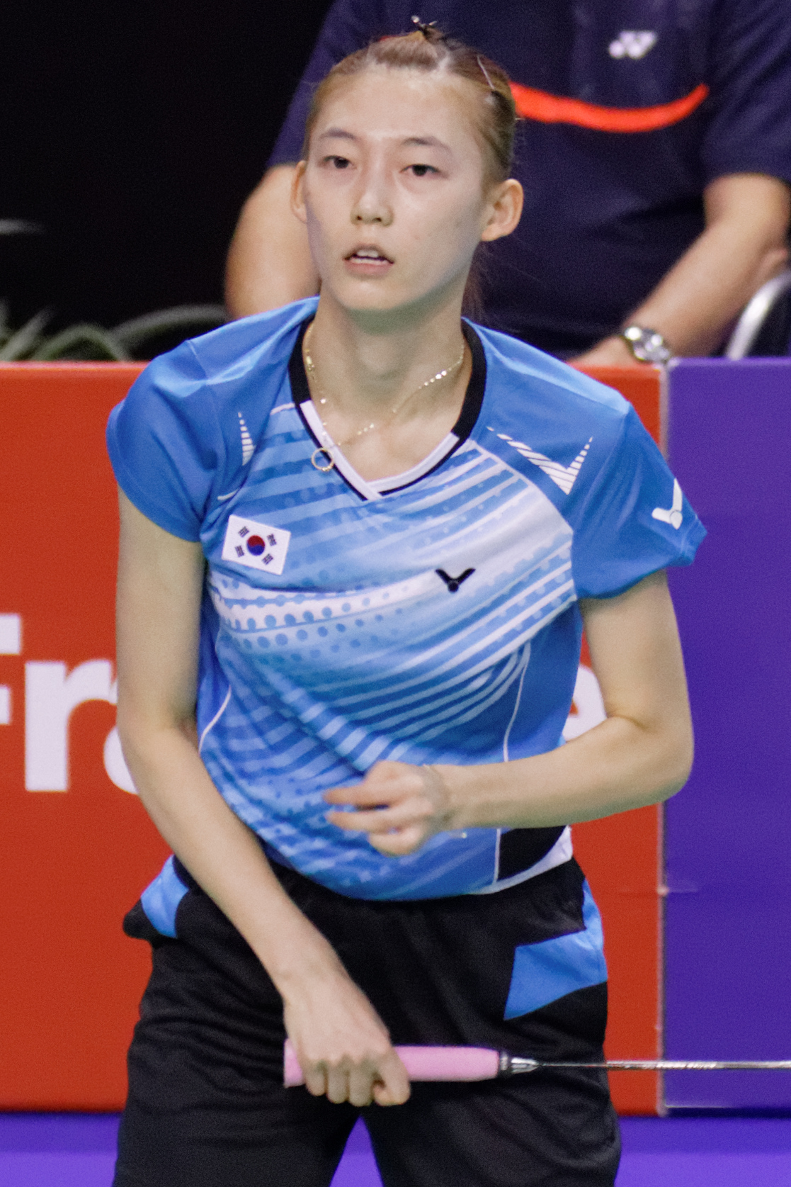 2013 French open. Women's doubles eightfinal. Jung Kyung-eun and Kim Ha-na vs Reika Kakiiwa and Miyuki Maeda.